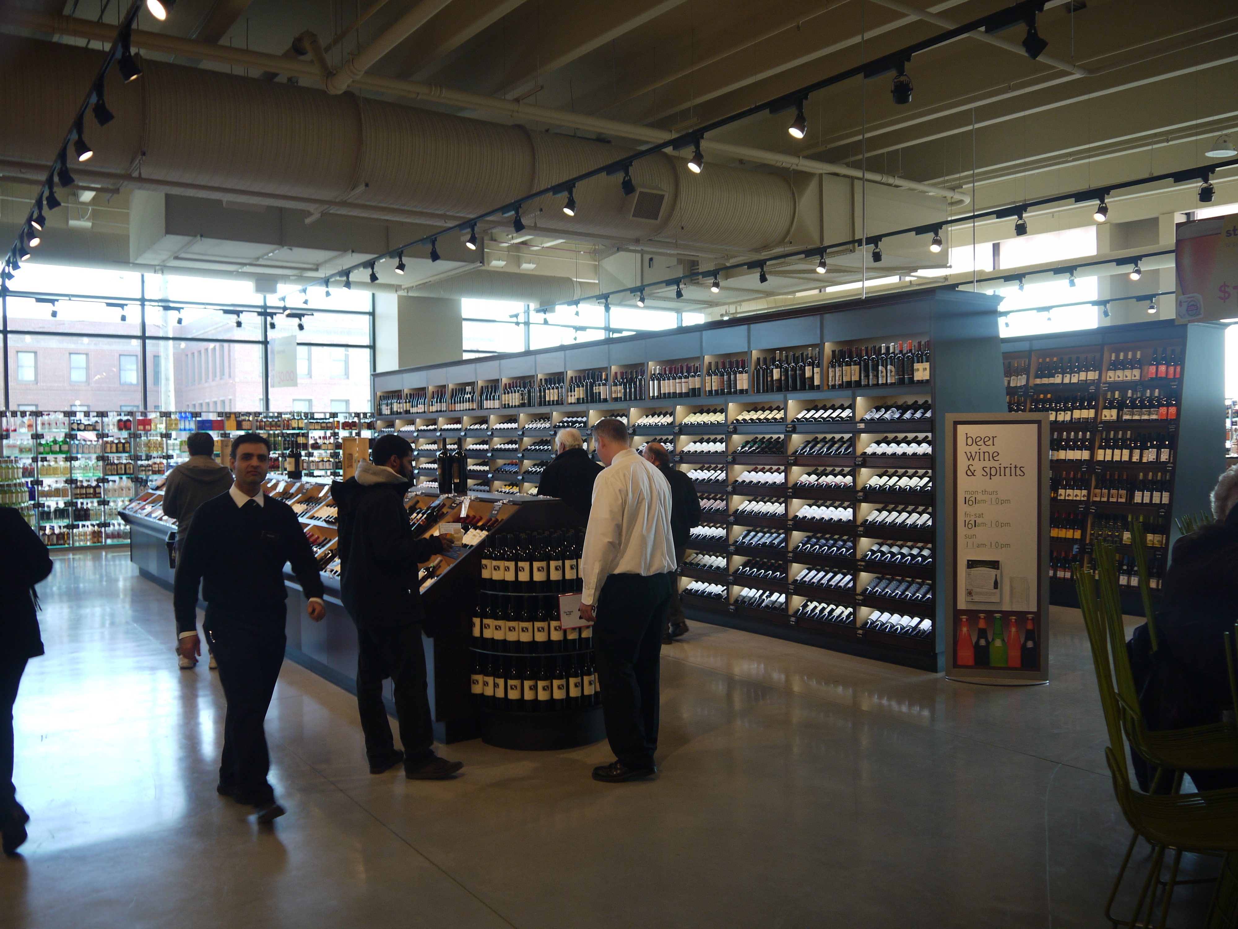 Marianos new store at Lawrence and Ravenswood